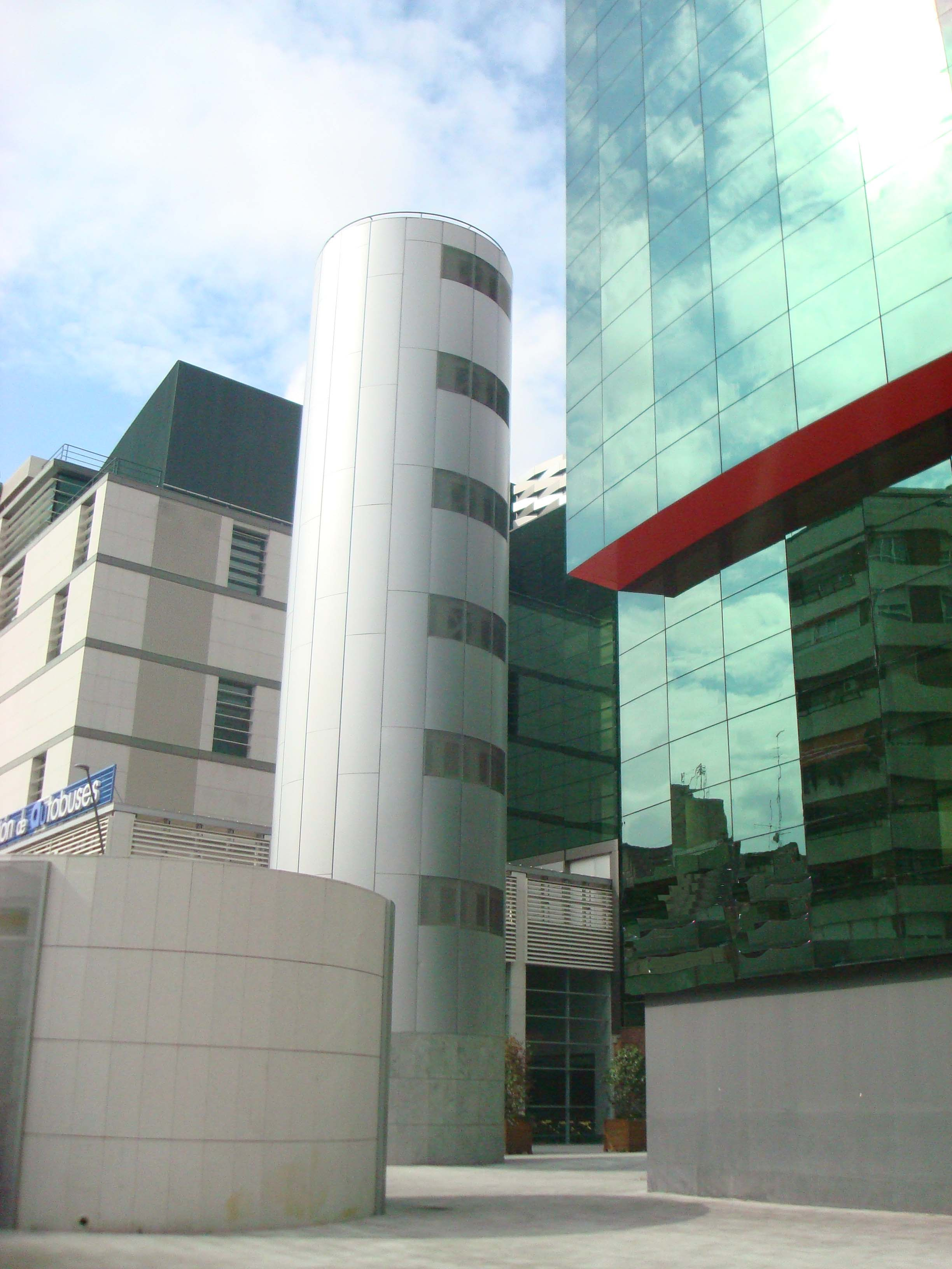 Toledo avenue in Talavera de la Reina (Spain)